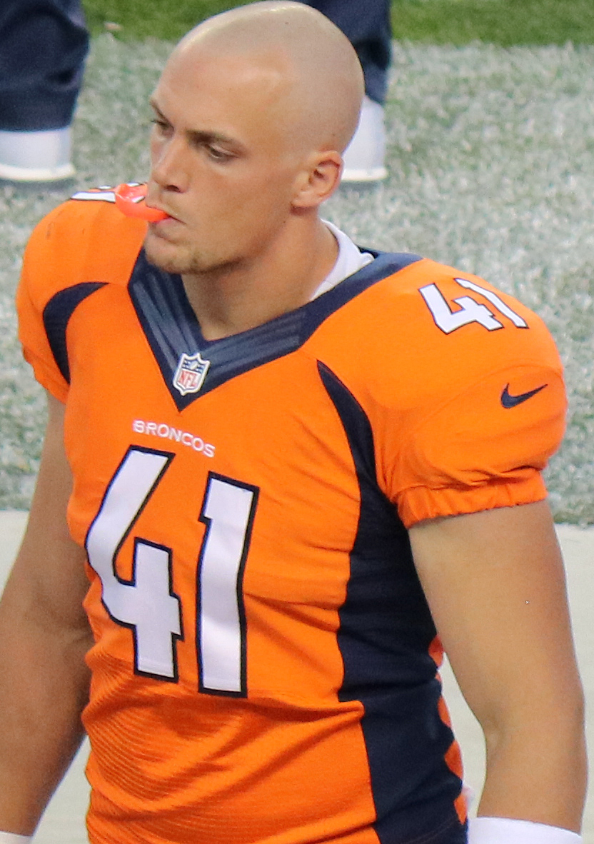 Kyle Kragen, a player on the National Football League.